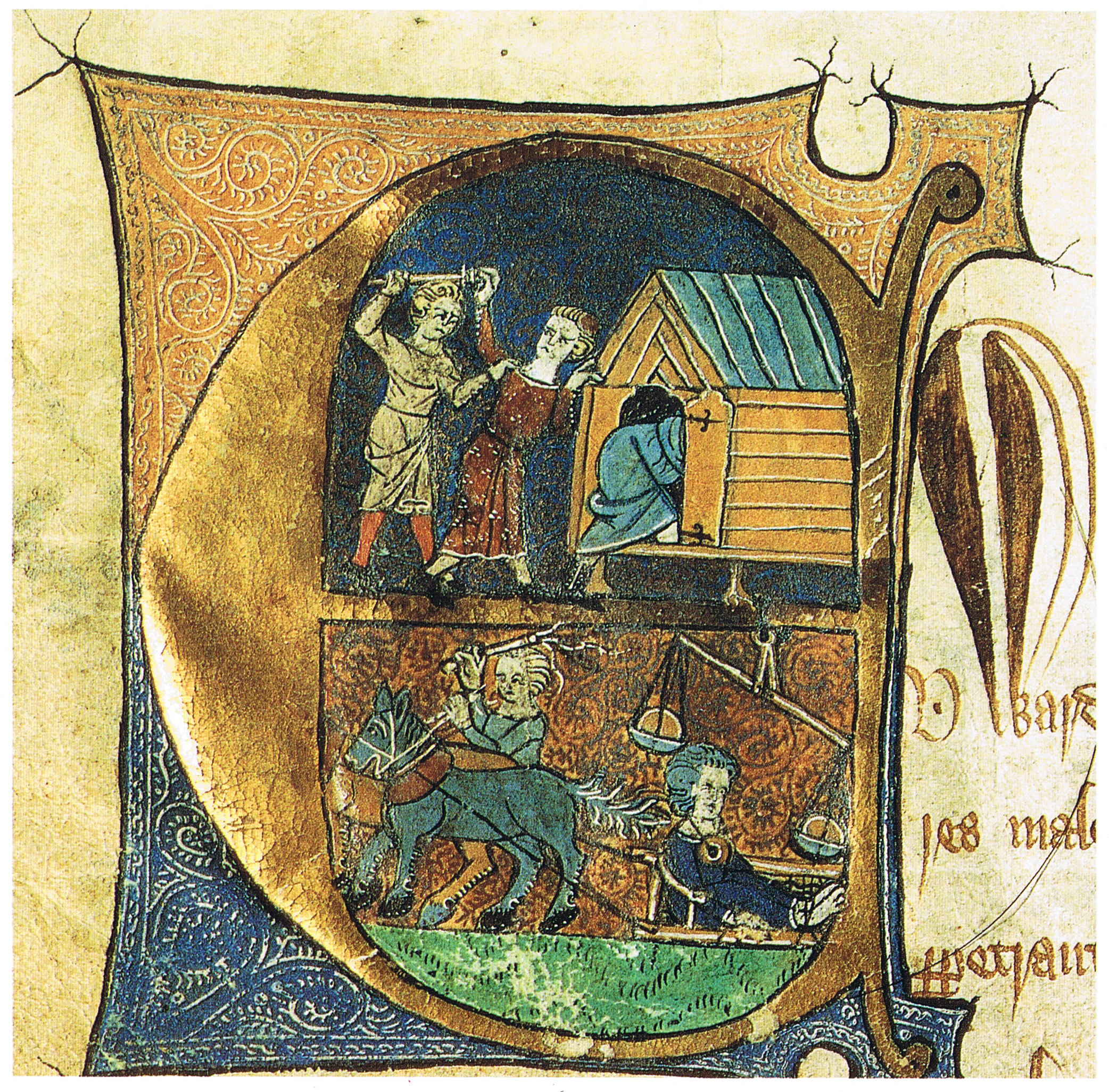 An illustration of the punishment dealt to bakers that had violated weight regulation on bread. The offender would be dragged through the city streets on a sled with the fraudulent bread tied around his neck. City of Bristol Record Office.